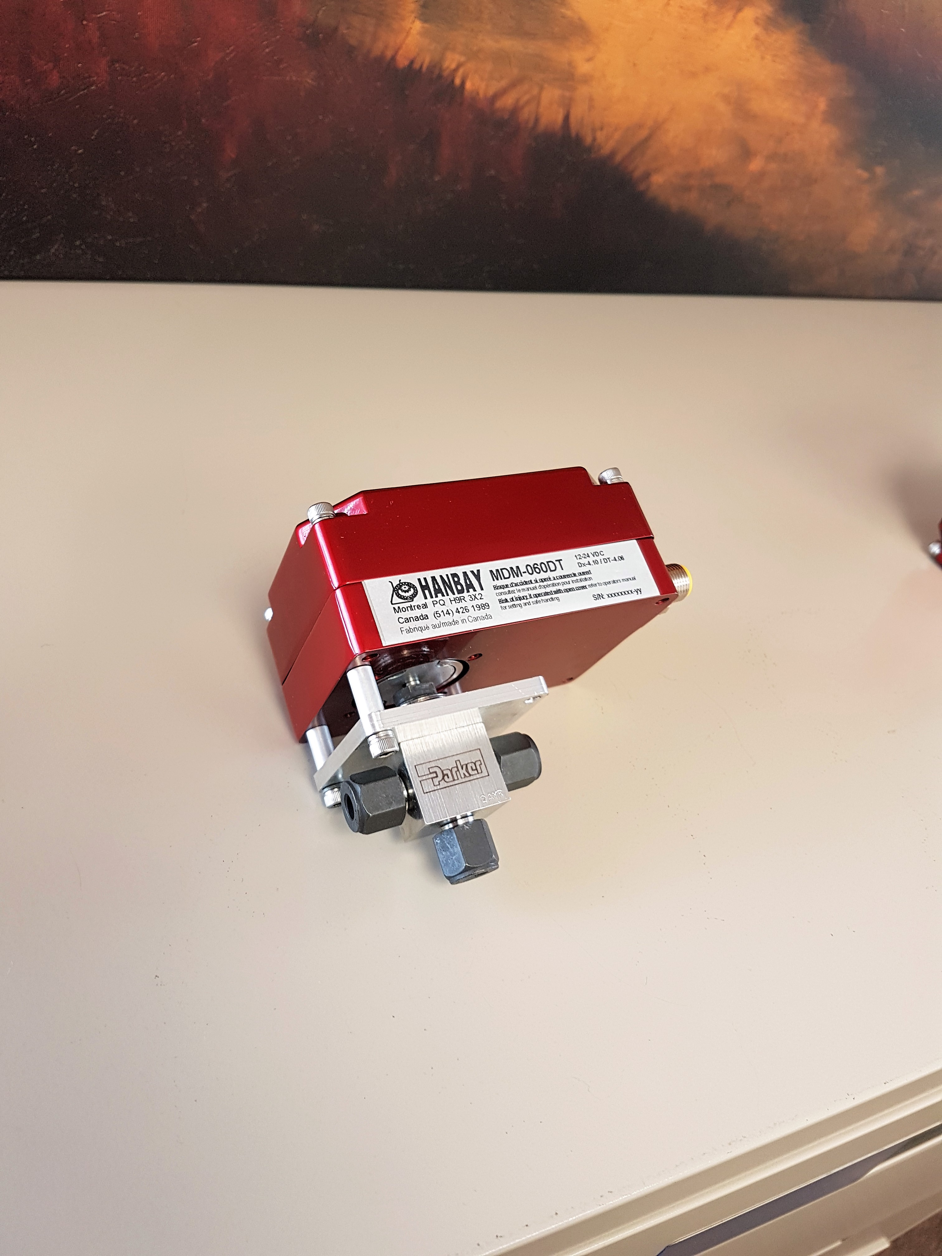 Compact electric valve actuator matched with 3/8" Swagelok ball valve